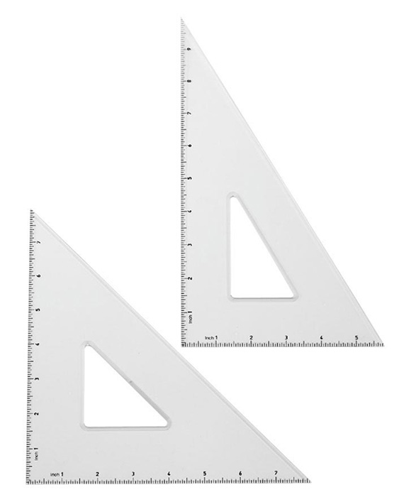 drafting triangle